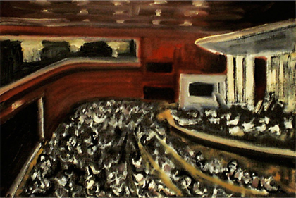 Photograph of a painting with the consent of the author. Painted in 1997.